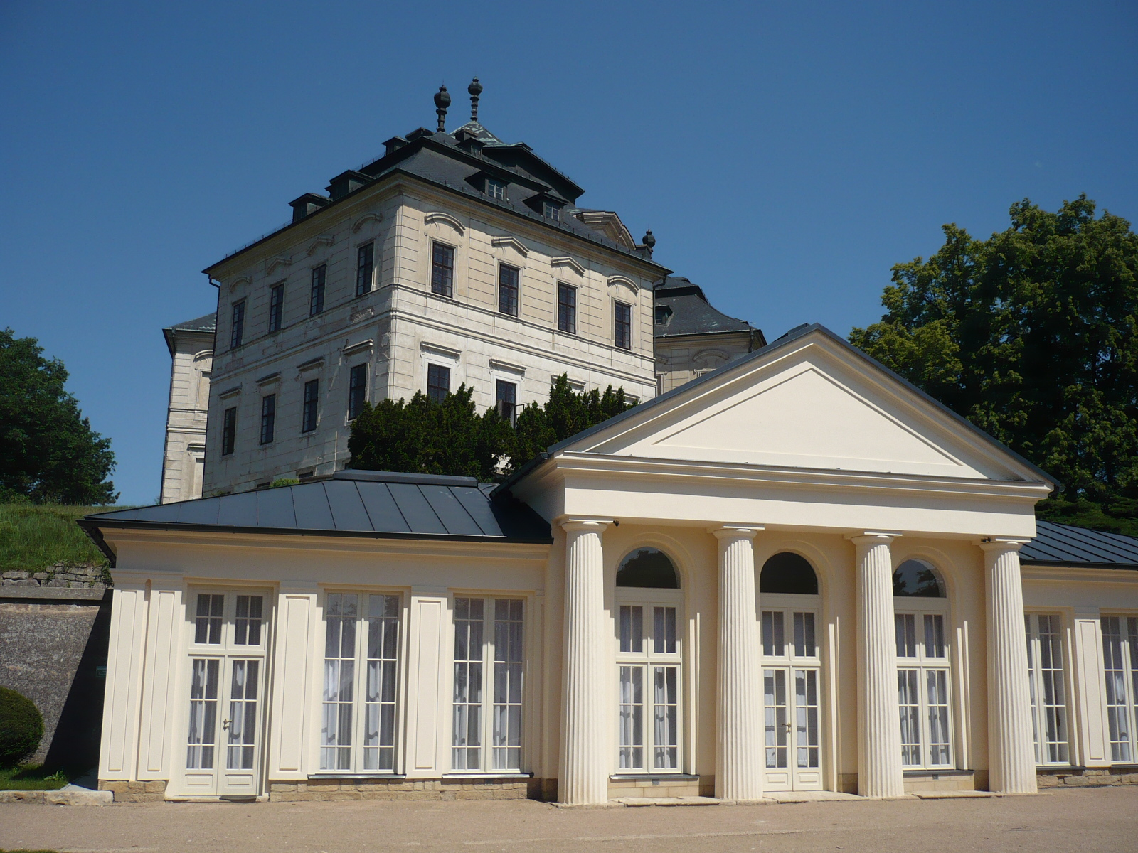 Kastle Karlova Koruna v Chlumci nad Cidlinou in the Czech Republic